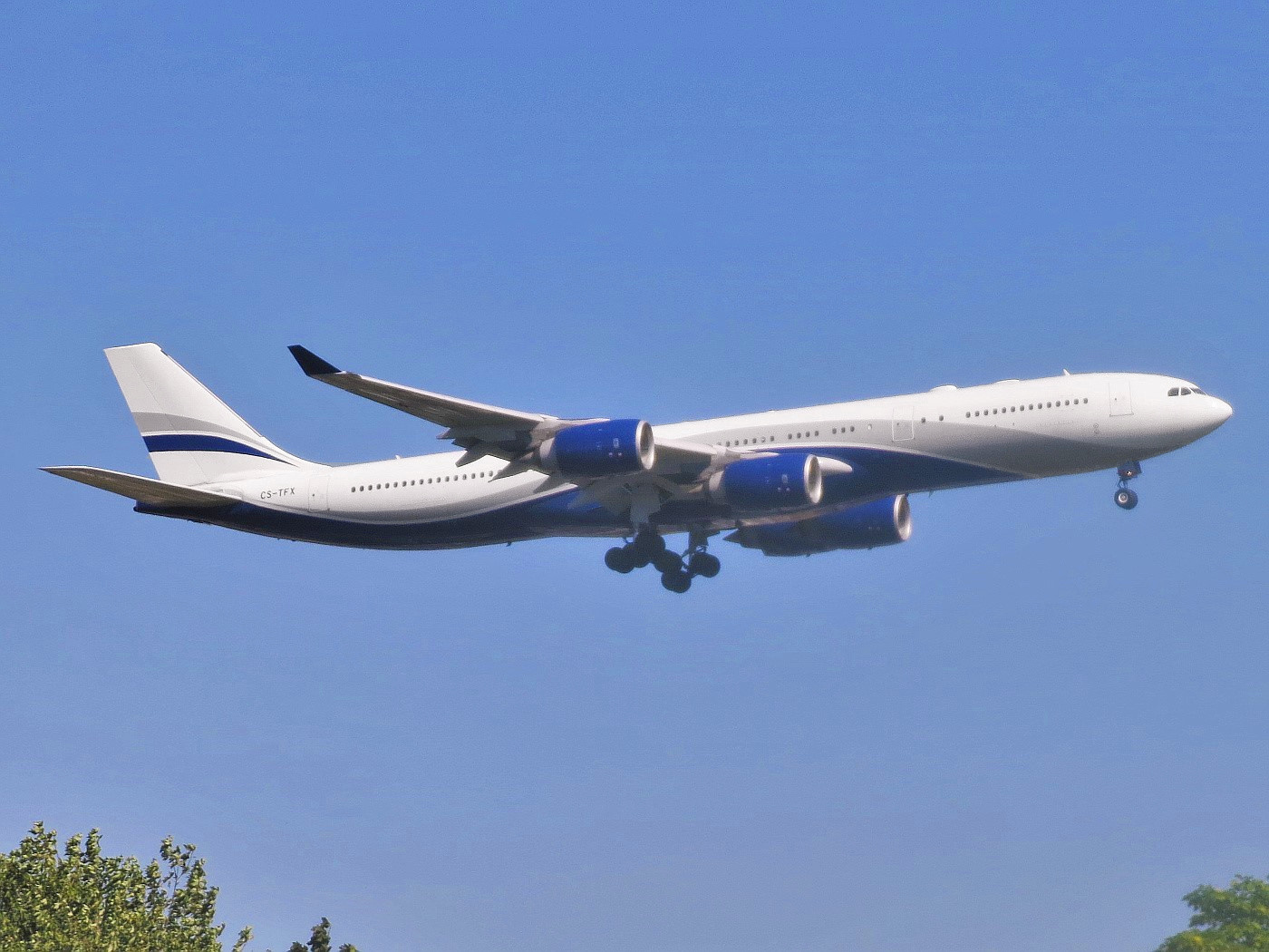 A Hi Fly A340-500, operating Flight LY7 on behalf of El Al Israel Airlines from Tel Aviv-Ben Gurion Airport in the Central District of Israel, is on final approach to John F. Kennedy International Airport in Queens, New York, USA.